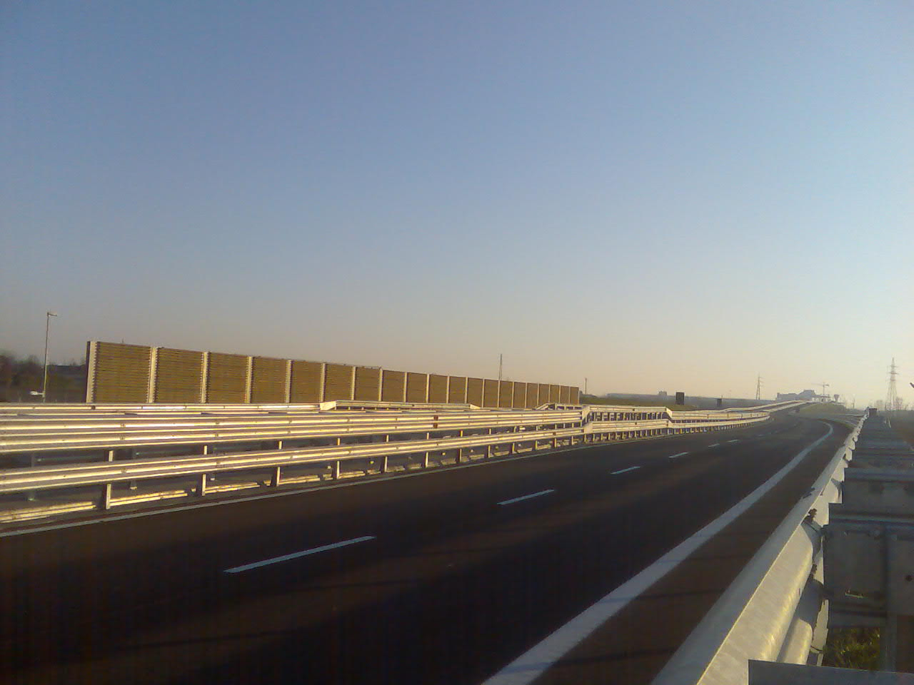 The west carriageway of the so-called Peduncolo, part of the future expressway connection between the river port of Cremona and A21 motorway.